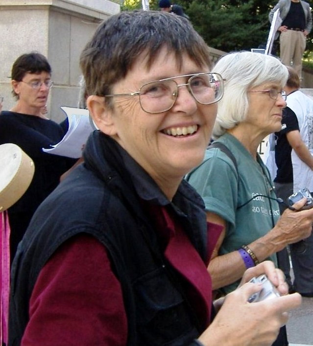 Jo Freeman at a peace protest at the Rayburn House office building.